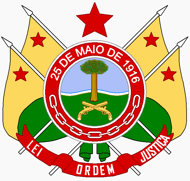 Coat of arms of Military Police - PMAC - Brazil.